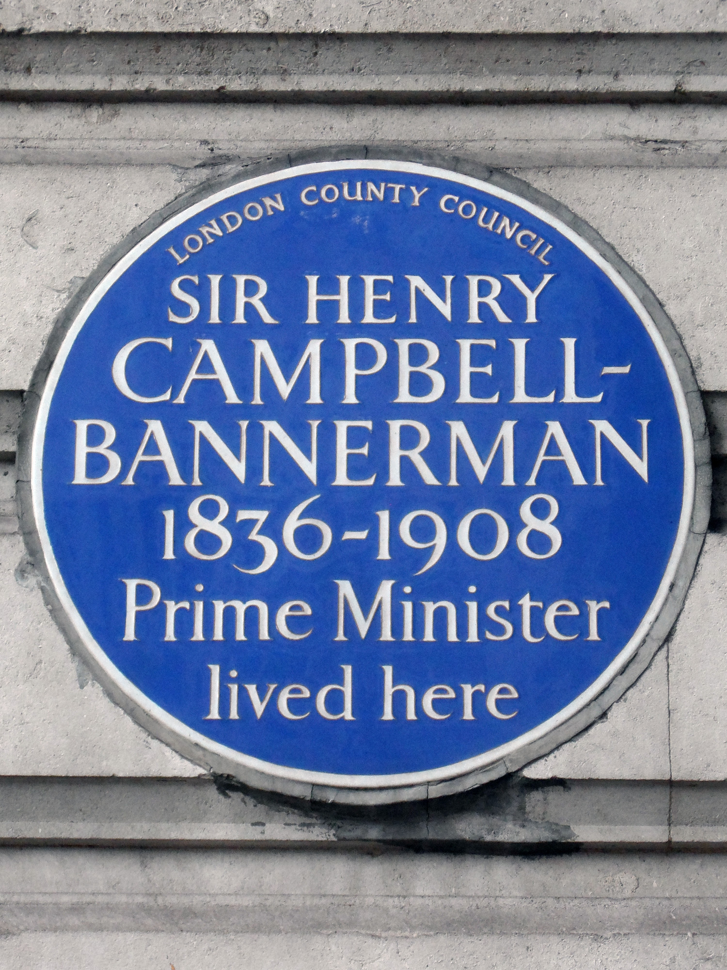 Blue plaque erected in 1959 by London County Council at 6 Grosvenor Place, Belgravia, London SW1X 7SH, City of Westminster